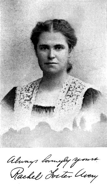 Image of Rachel Foster Avery